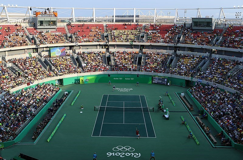 Tennis at the 2016 Summer Olympics – Men's singles. Rafael Nadal - Andreas Seppi